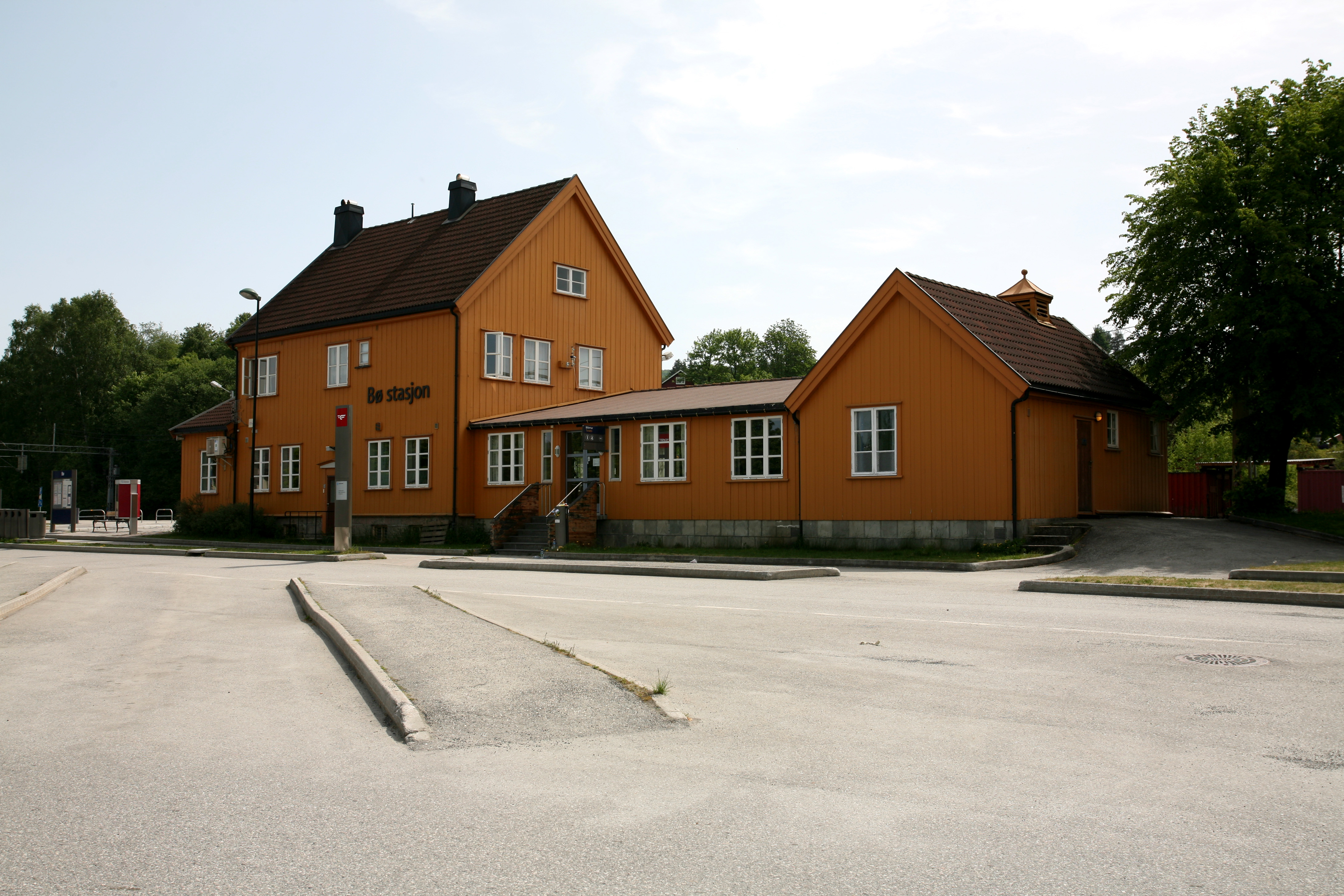 Picture of Bø Railway Station (Telemark - Norway)